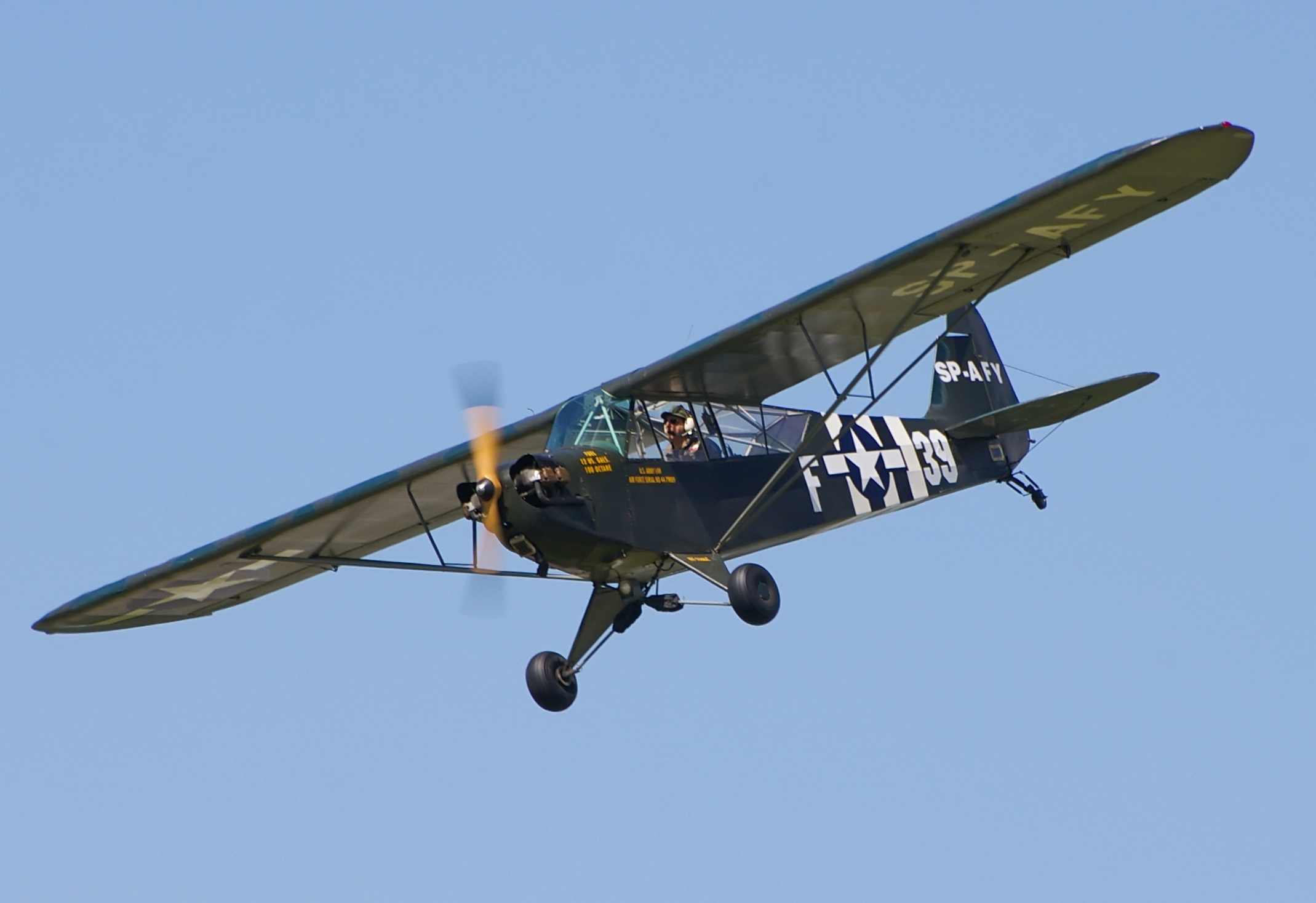 iper Cub Góraszka (cropped)